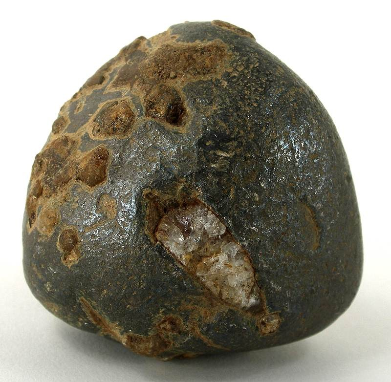 Bismuth Locality: Chorolque Mine, Atocha-Quechisla District, Sud Chichas Province, Potosí Department, Bolivia (Locality at ) Size: 4.0 x 3.7 x 2.5 cm. A really interesting, hefty Bismuth nugget. Large bismuth nuggets are extremely uncommon from anywhere, and they were noted historically at this important and classic locale. These were collected on the 4th Vaux-Academy expedition, 1929-1930. MASS = 162 grams. Ex. Academy of Natural Sciences Philadelphia Collection.